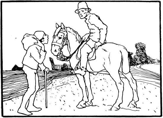 Illustration by Otto Ubbelohde to the fairy tale Hans in Luck